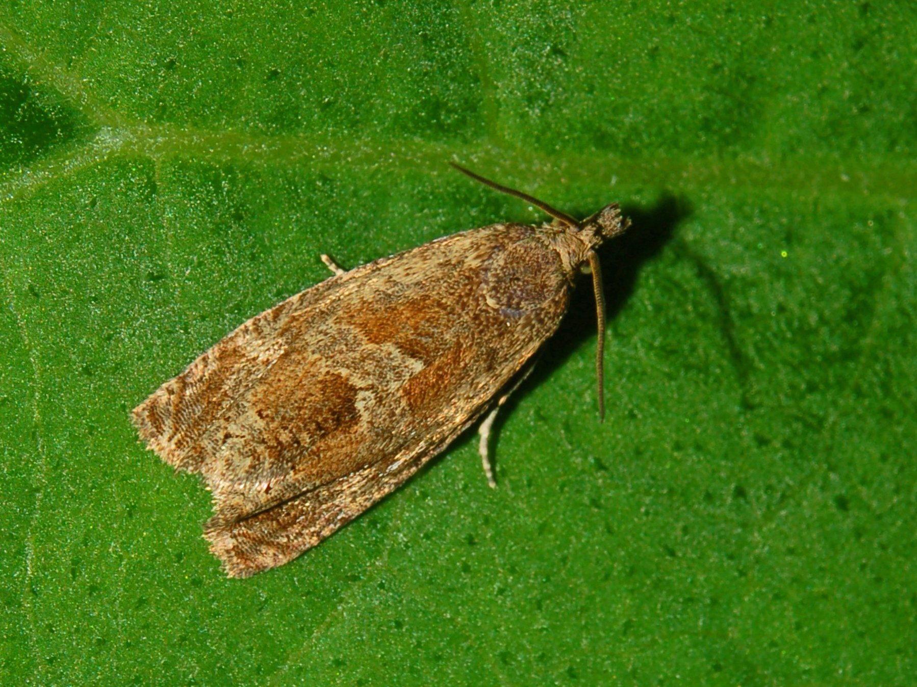 Eucosma conterminana. Piani di Praglia, Genova, Italy